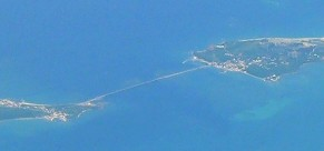 Aerial view of Penghu Great Bridge over the Houmen Channel (Roaring Gate) in Taiwan, ROC.